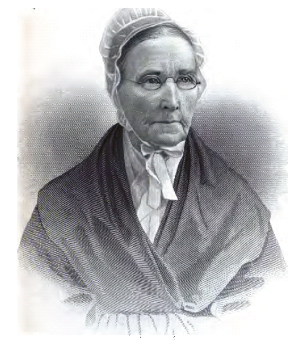 Catherine White Coffin, the wife of Levi Coffin, and a member of the abolitionist movement and underground railroad